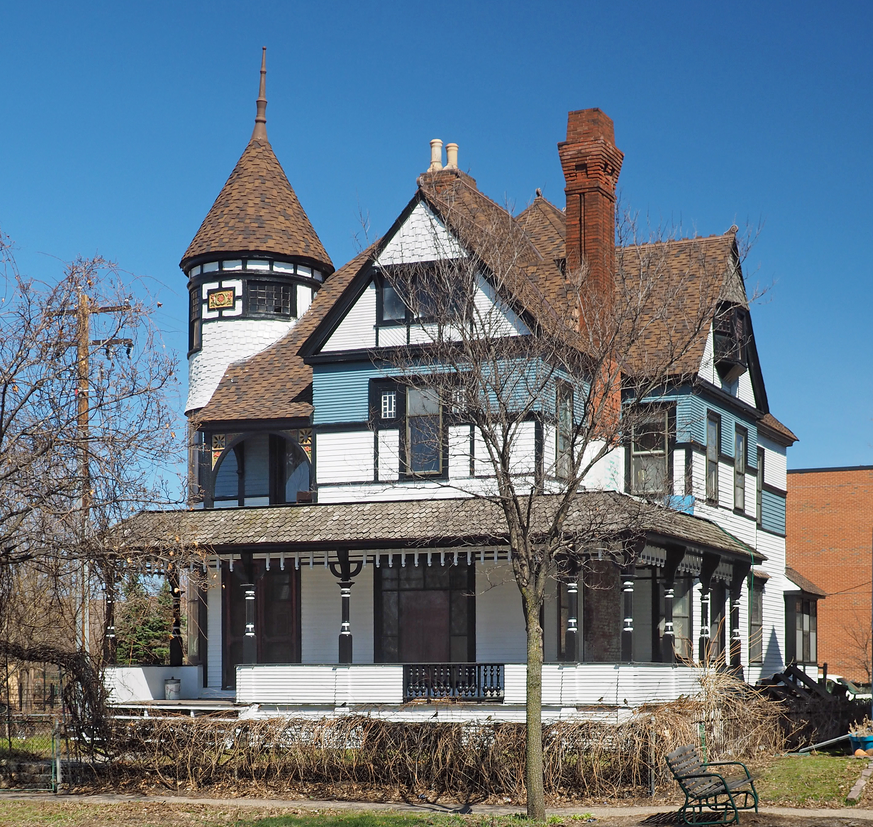 Harry F. Legg House, 1601 Park Ave S, Minneapolis, Minnesota, USA. Viewed from the west-southwest.